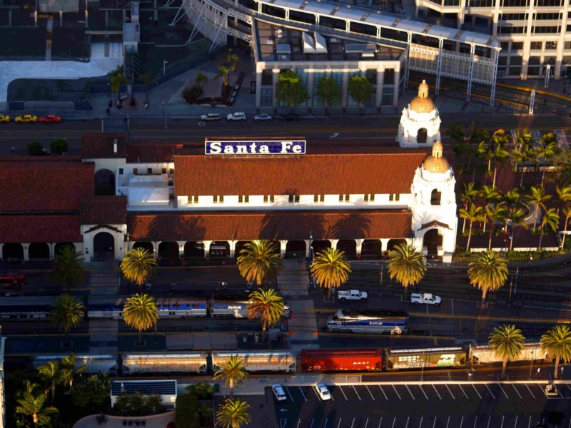 Aerial view of Union Station (Santa Fe Station) in downtown San Diego, California Please acknowledge "Phil Konstantin" as the creator of this photograph.